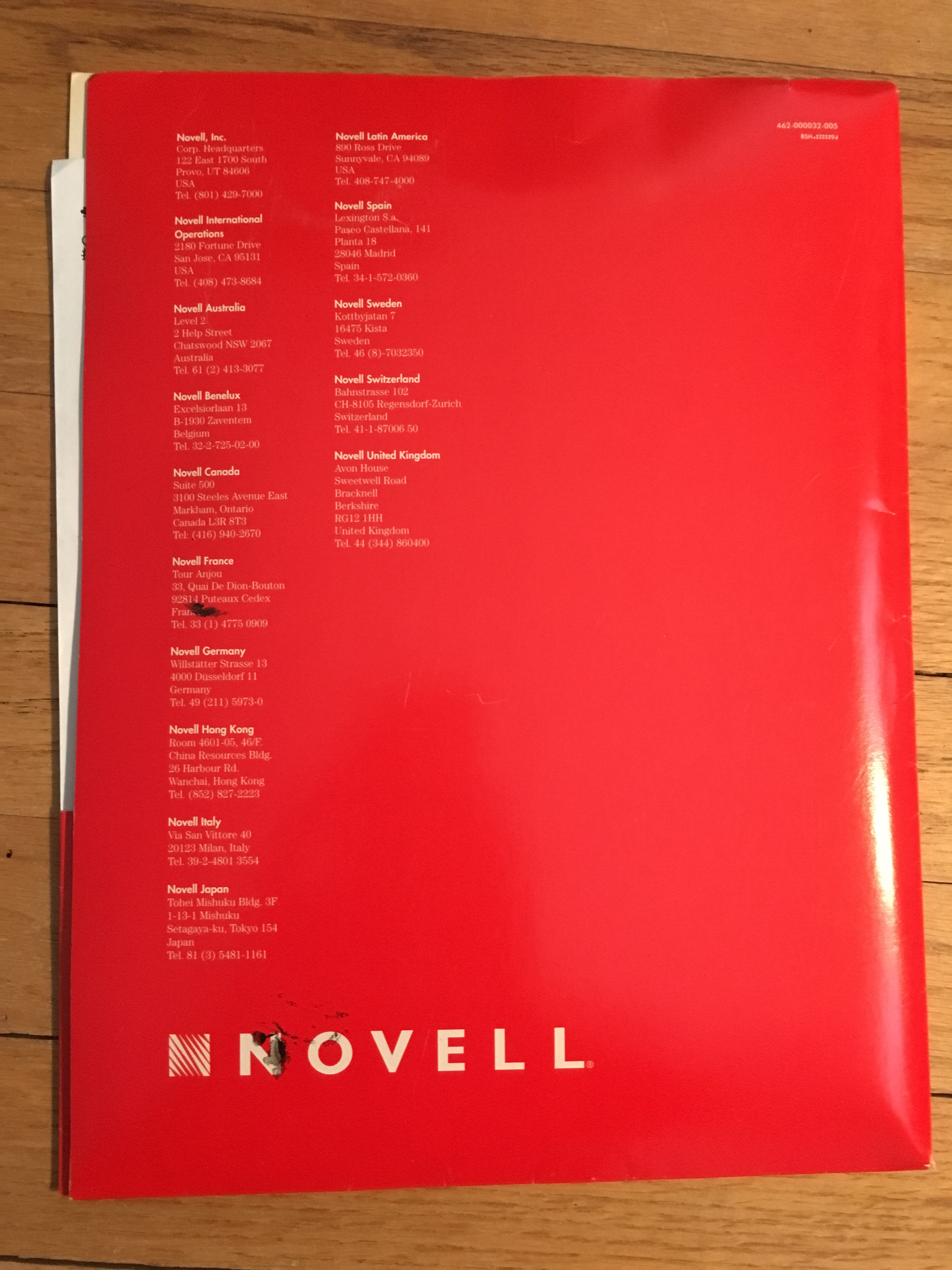 The back side of a Novell 9 x 12 inch presentation folder with a list of Novell's customer-facing offices worldwide. The folder has pockets on the inside and is from 1994.